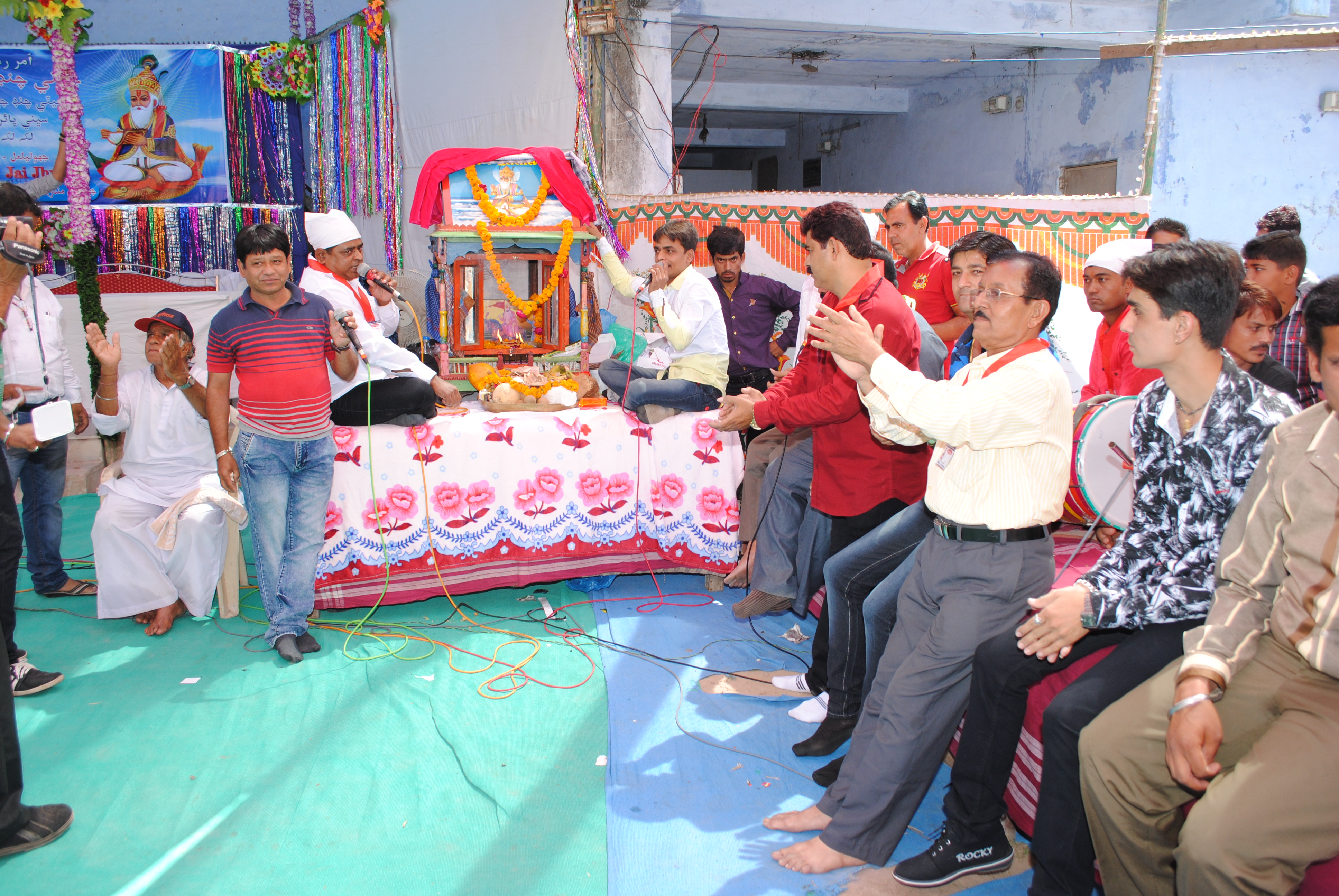 Chetichand Celebration2015,Jawahar Nagar,Nadiad.